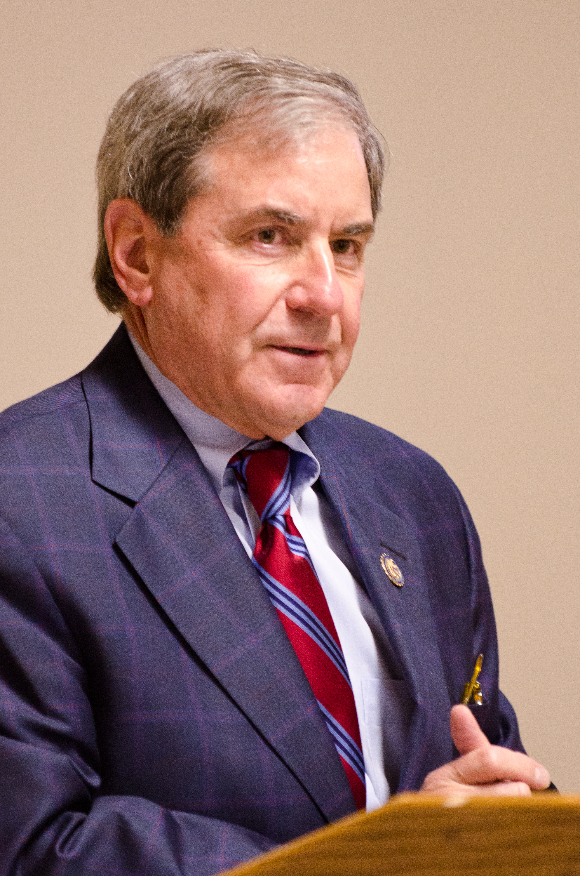 Congressman John Yarmuth expressed his appreciation to the more than 60 soldiers and armen who comprised the Kentucky National Guard's Agribusiness Development Team II during a speech May 1, 2011, at the Kentucky Air National Guard Base in Louisville, Ky. The soldiers and airmen had just returned from a 12-month deployment Afghanistan, where they worked to make Afghan farmers become agriculturally self-sufficient, fostered business opportunities through a women's-empowerment initiative and provided force protection.